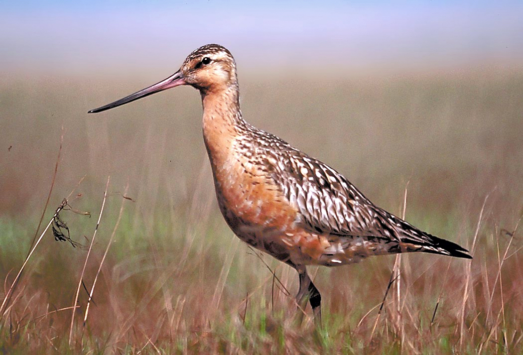 Bar-tailed Godwit (Limosa lapponica). Known as 'Kūaka' in New Zealand Māori.